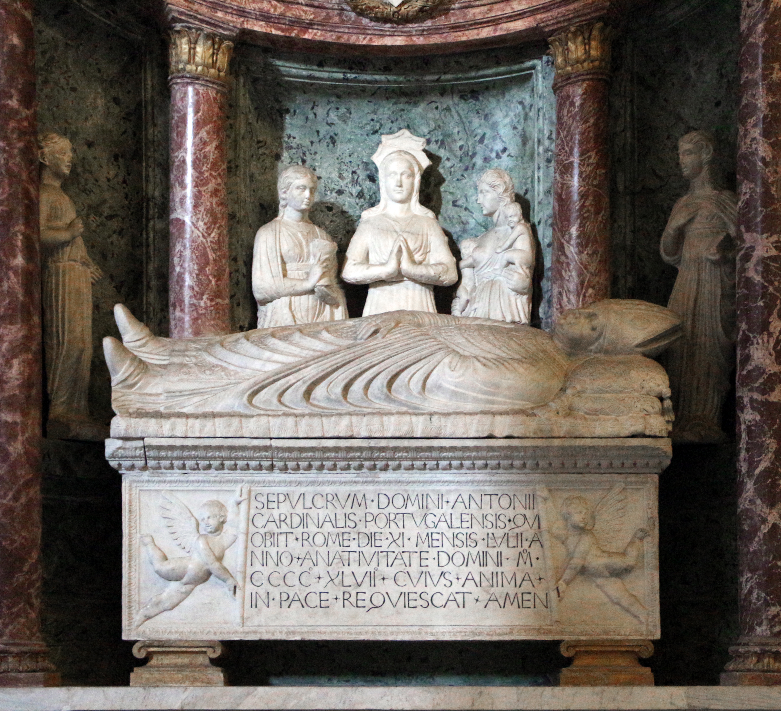 San Giovanni in Laterano (Rome) - Interior